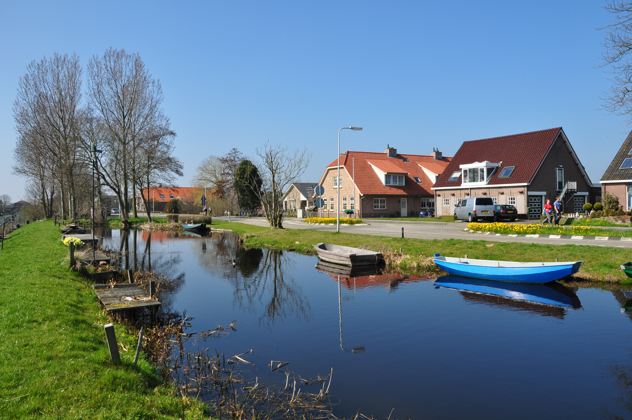 The Voorwetering Canal and the 'Van Klaverweijdeweg' (road) in Hoogmade (municipality Kaag en Braassem, Province South Holland, Netherlands). At left the bank of the small Piest polder.